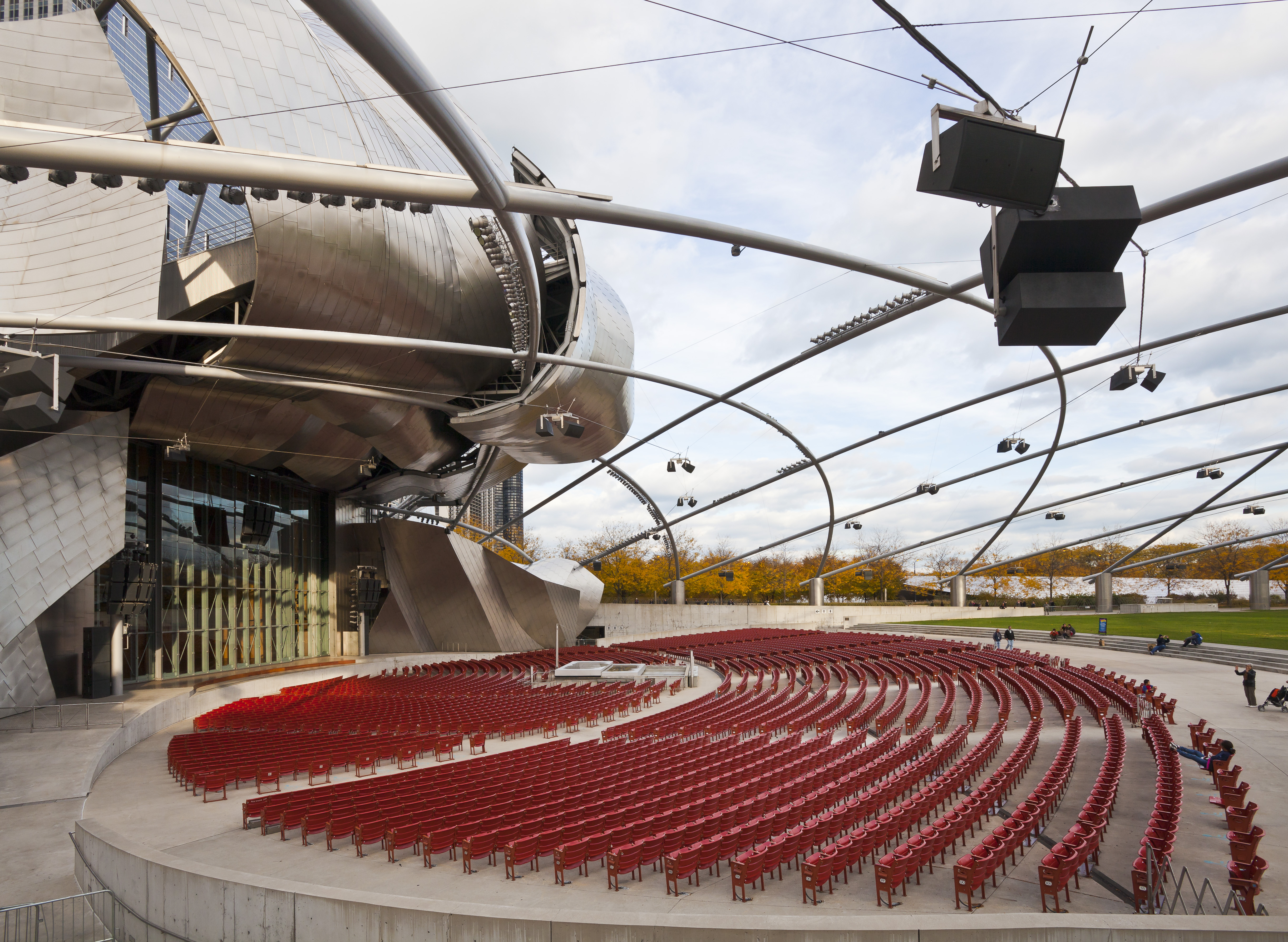 Jay Pritzker Pavilion, Chicago, Illinois, USA